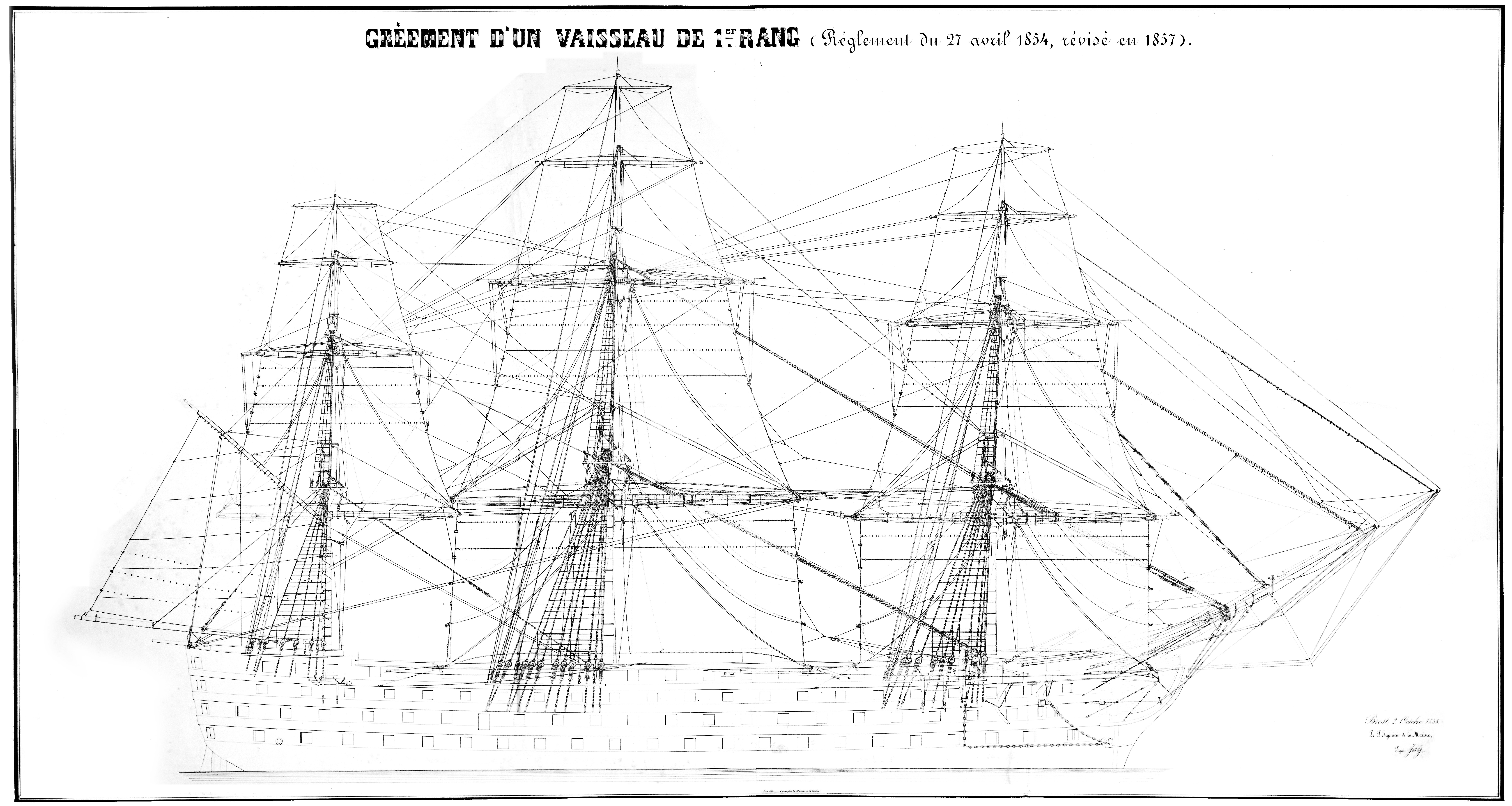 French first rate ship sails layout 1854 revised in 1857